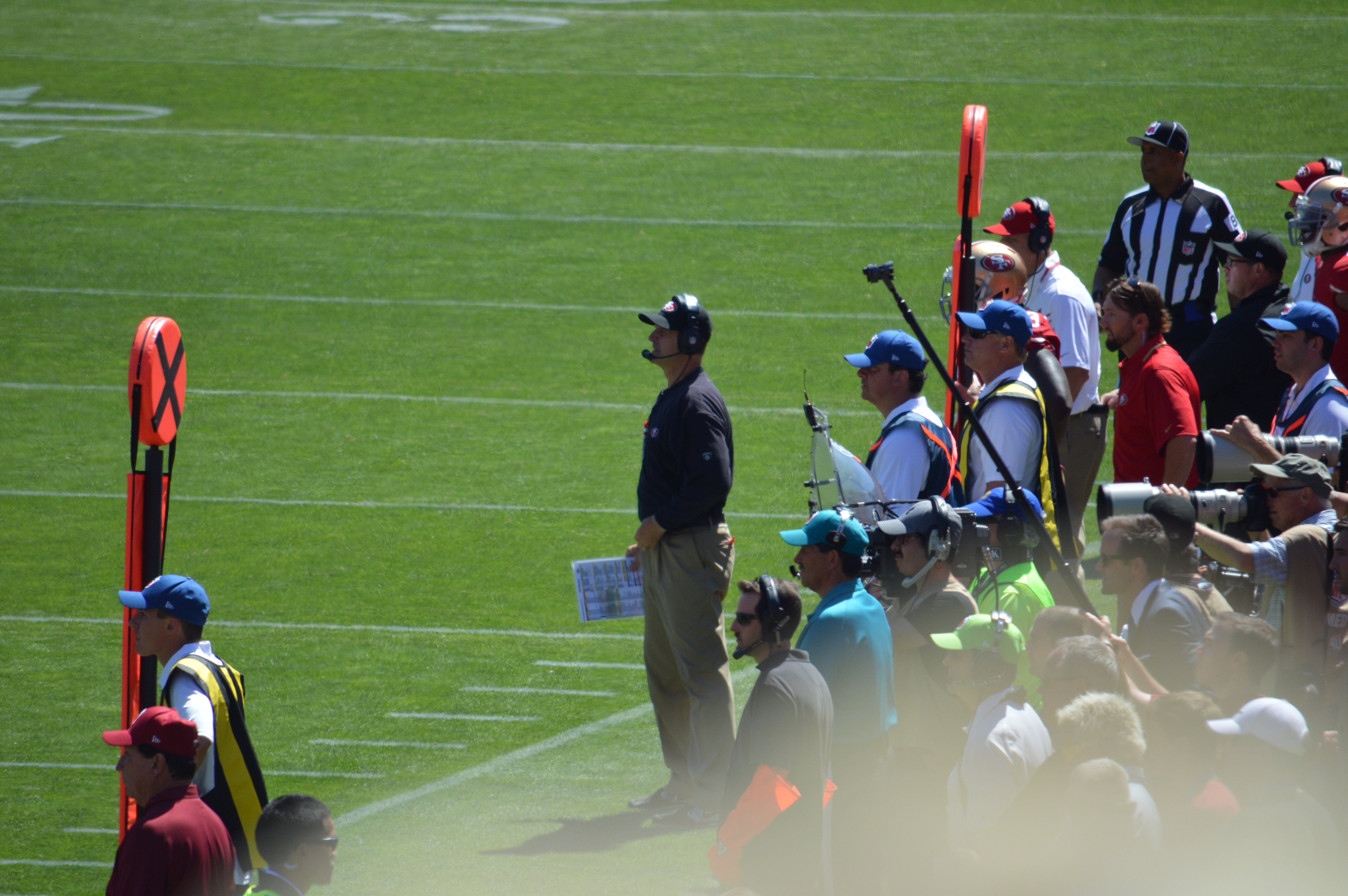 San Francisco 49ers coach Jim Harbaugh during the 49ers' game vs. the Green Bay Packers.